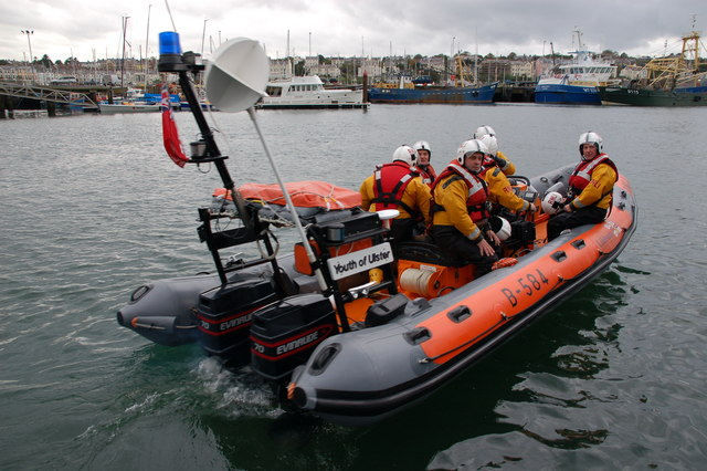 Air/sea rescue exercise in Bangor Bay (4 of 8) This is Bangor's old Atlantic 21 class boat "Youth of Ulster" about to depart from the harbour. Continue to 254965.